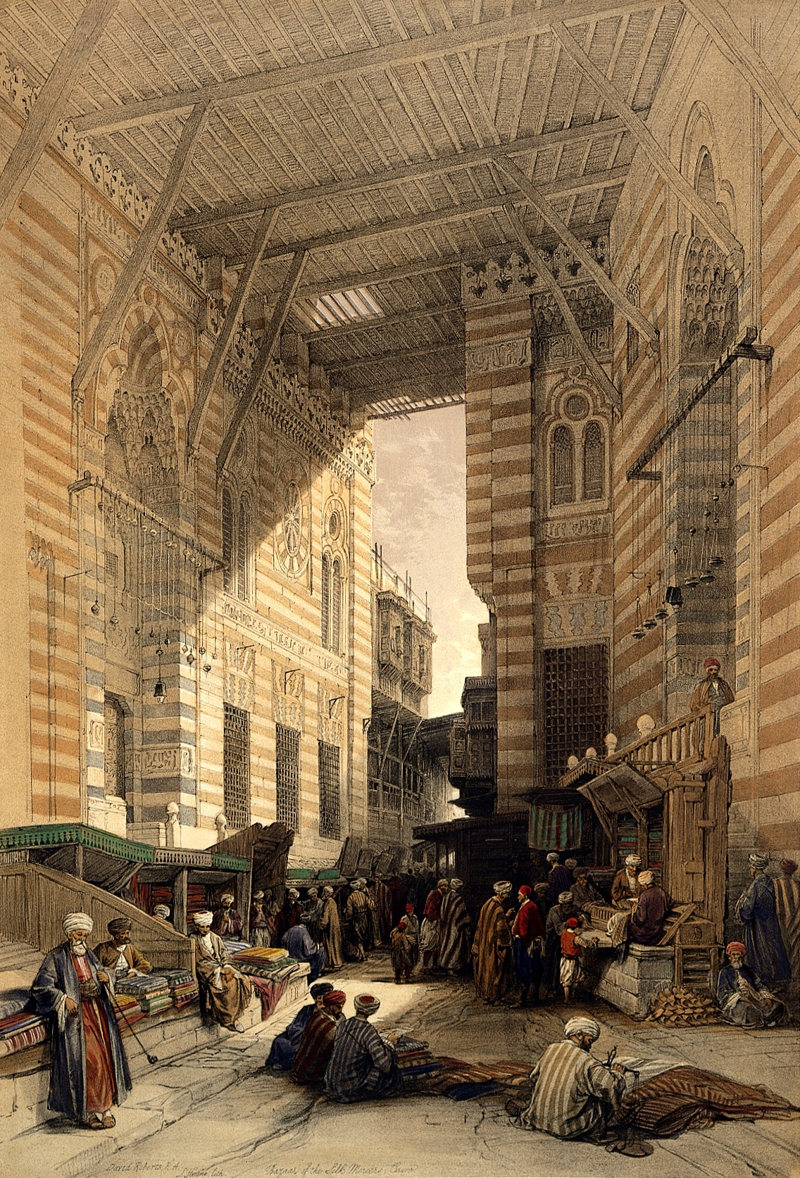 Bazaar of the Silk Mercers in Cairo The space between two walls of the Sultan al-Ghuri complex is shown roofed over and used as a space for a silk-market, with much gathering for gossip, coffee, and smoking as well as for manufacture and sale of goods. Today the buildings are still there but the market has disappeared, and the unroofed space is a through-road for car traffic. Iconographic Collections Keywords: David Roberts; David Roberts